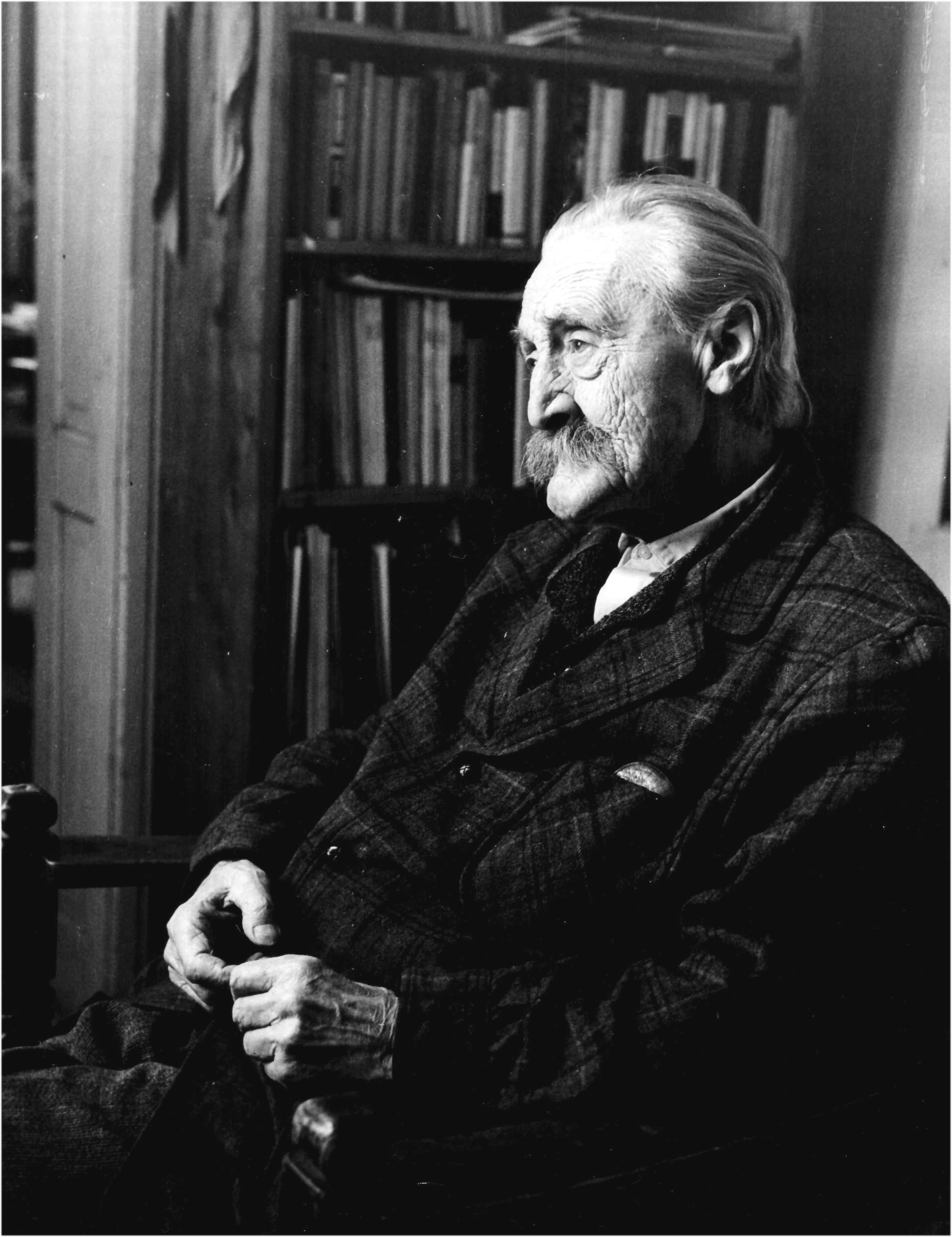 Károly Kós (1883–1977) Hungarian architect, writer, graphic designer, book designer, editor, book publisher, teacher, politician in Romania